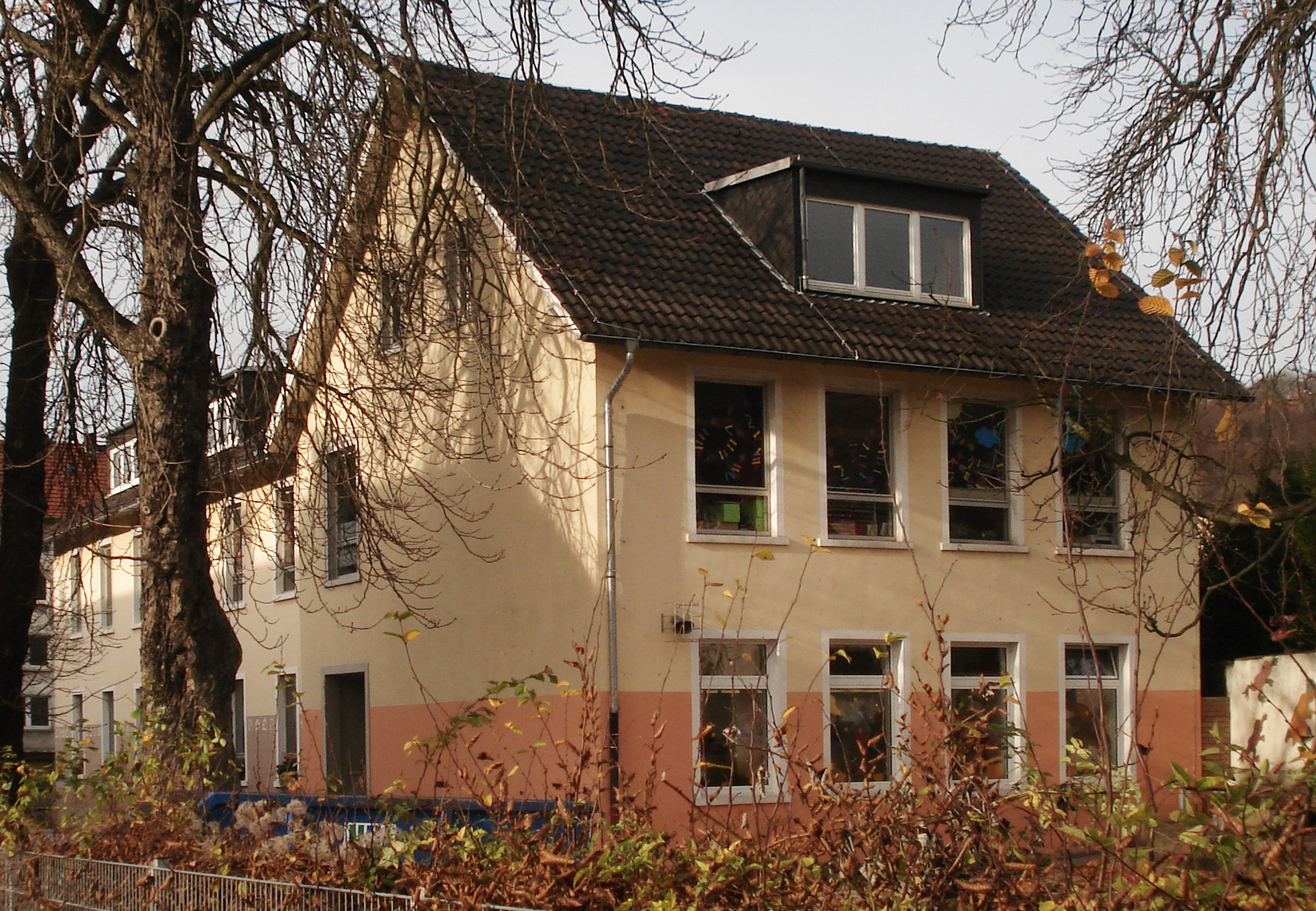 Hagen-Delstern, Astrid Lindgren Primary School